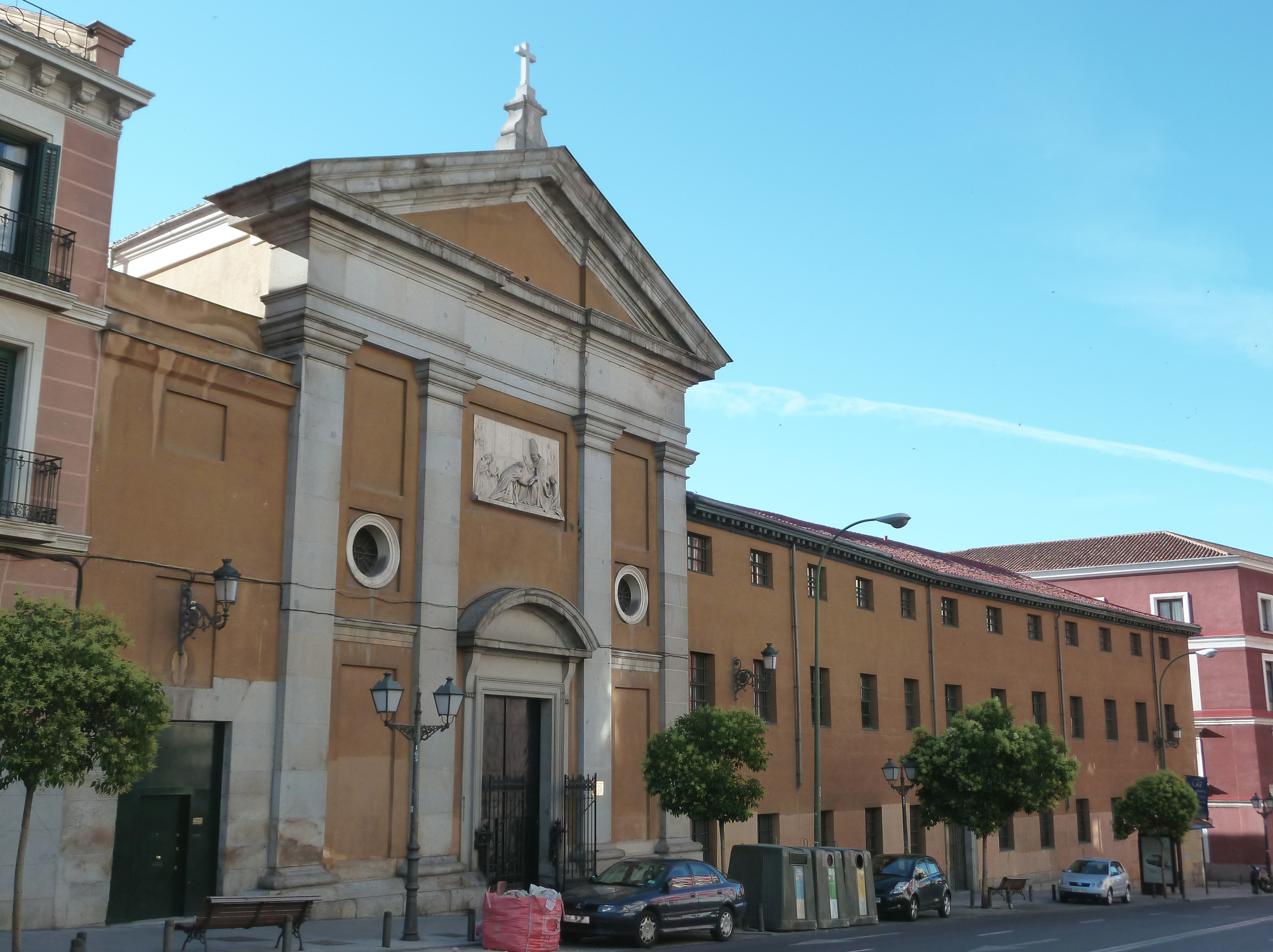 Façade of the Monastery of the Visitation and Church of St. Francis de Sales in Madrid (Spain), at 72 Calle de San Bernardo (street) in Centro district. Building was projected in 1794 by Manuel Bradi and built between 1798 and 1801.